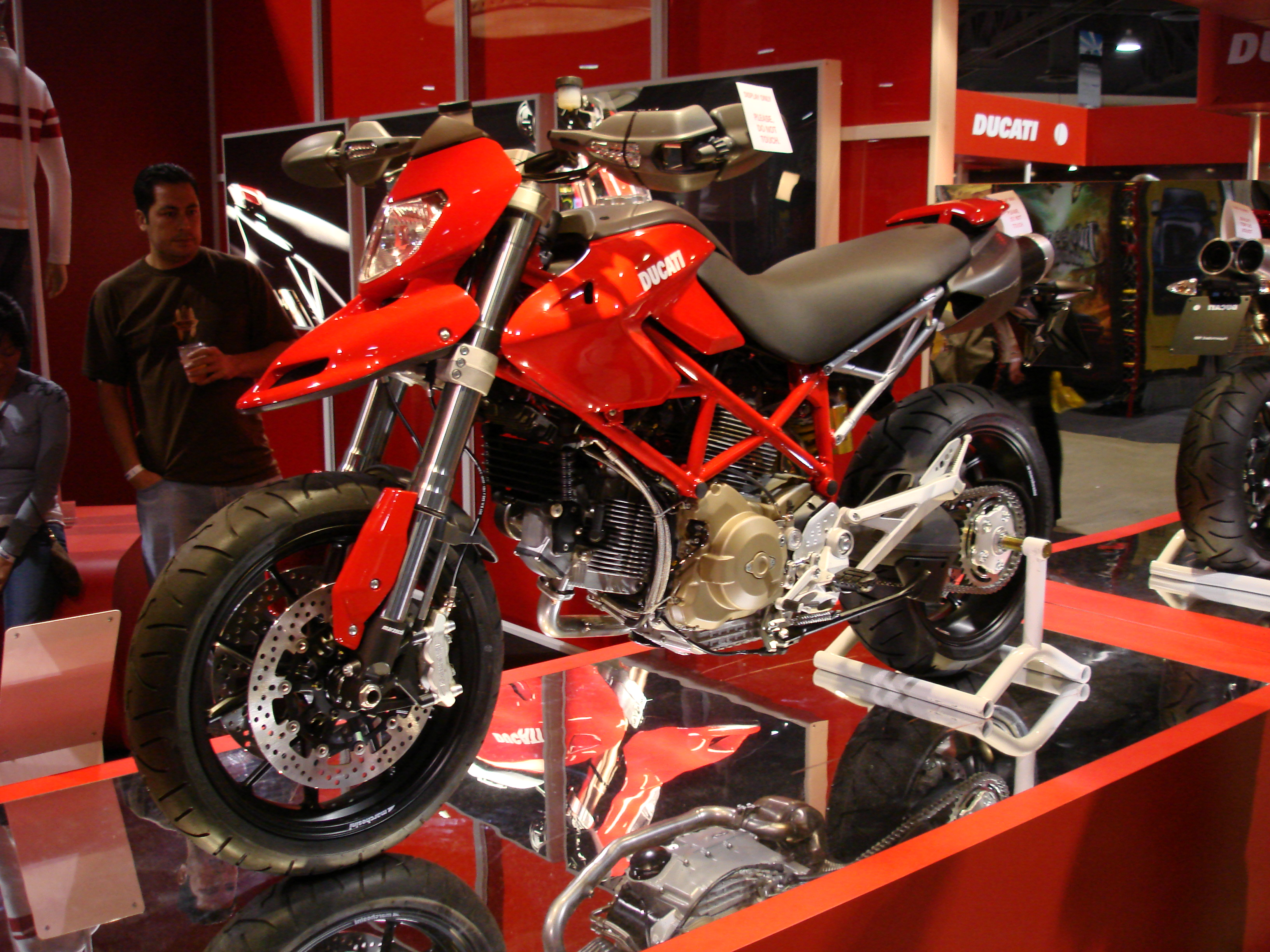 2007 Ducati HyperMotard on display at the 2006 International Motorcycle Show in Long Beach, CA. Camera used was a Sony Cyber-shot DSC-W100.